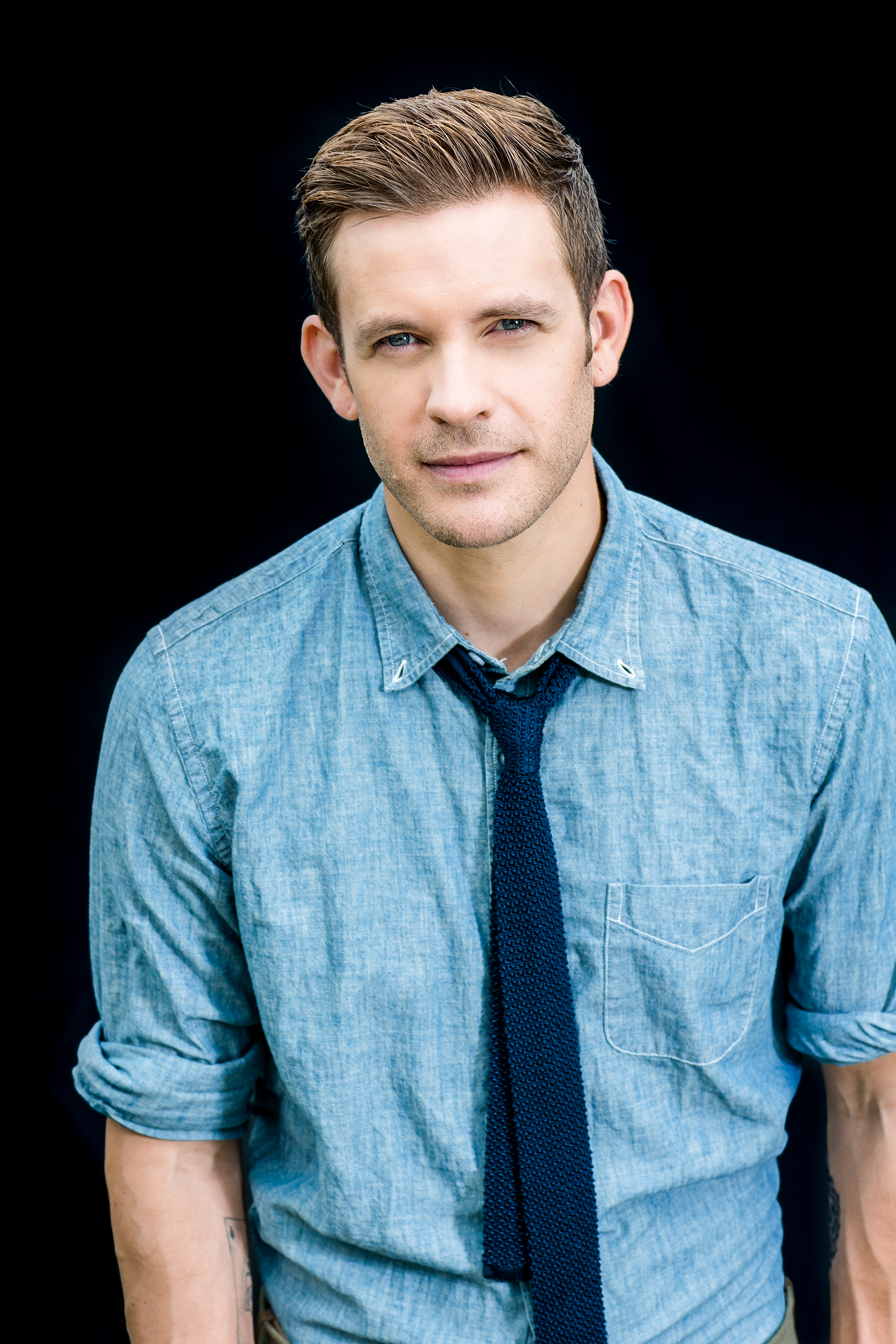 This is an image of actor Bryce Johnson